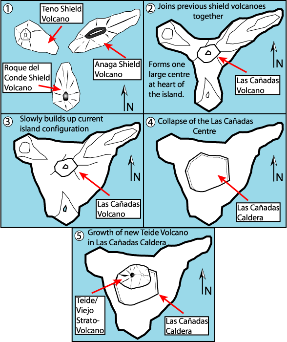 This is a very schematic diagram of the formation of the island of Tenerife and evolution of the current Teide volcano. In step one the island began as three separate shield volcanoes - Anaga to the NE, Teno to the NW and Roque del Conde to the south. Step Two: After a period of erosion of the older massifs a new period of volcanic activity saw the creation of the large Las Canadas volcano. Step Three: The islands current shape begins to become apparent as Las Canadas grew. Step Four: The Las Canadas edifice collapsed to form the Las Canadas Caldera into which Step Five: The current Teide/Vierjo Central complex has grown within this collapsed Las Canadas Caldera (more detailed/smaller of two versions).